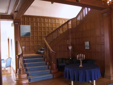 photos, sweden